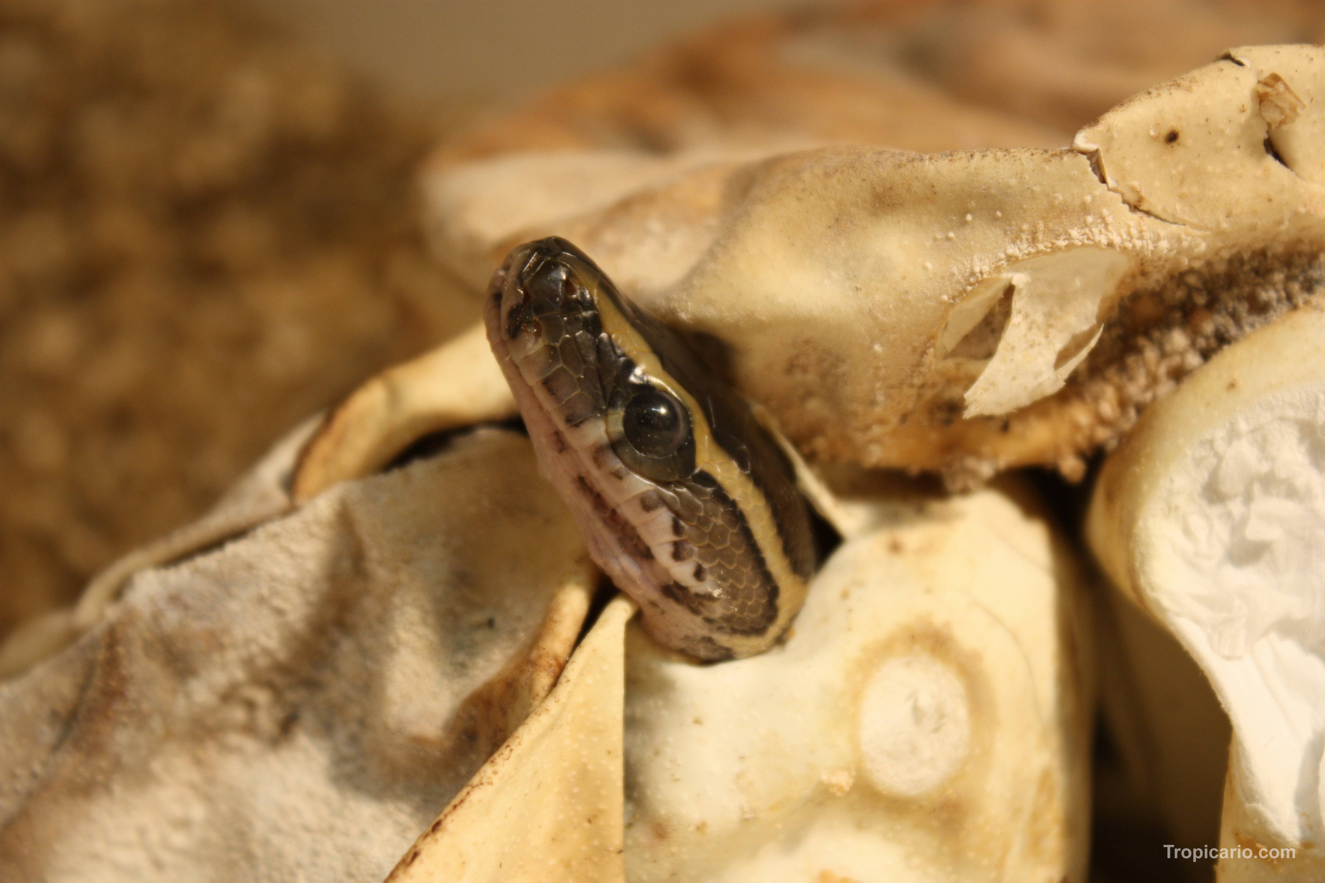 Hatchling Northern African Rock Python (Python sebae) at Tropicario - The Tropical Animal House, Helsinki, Finland. This picture is a donation of Tropicario, Finland (J. Lanki)